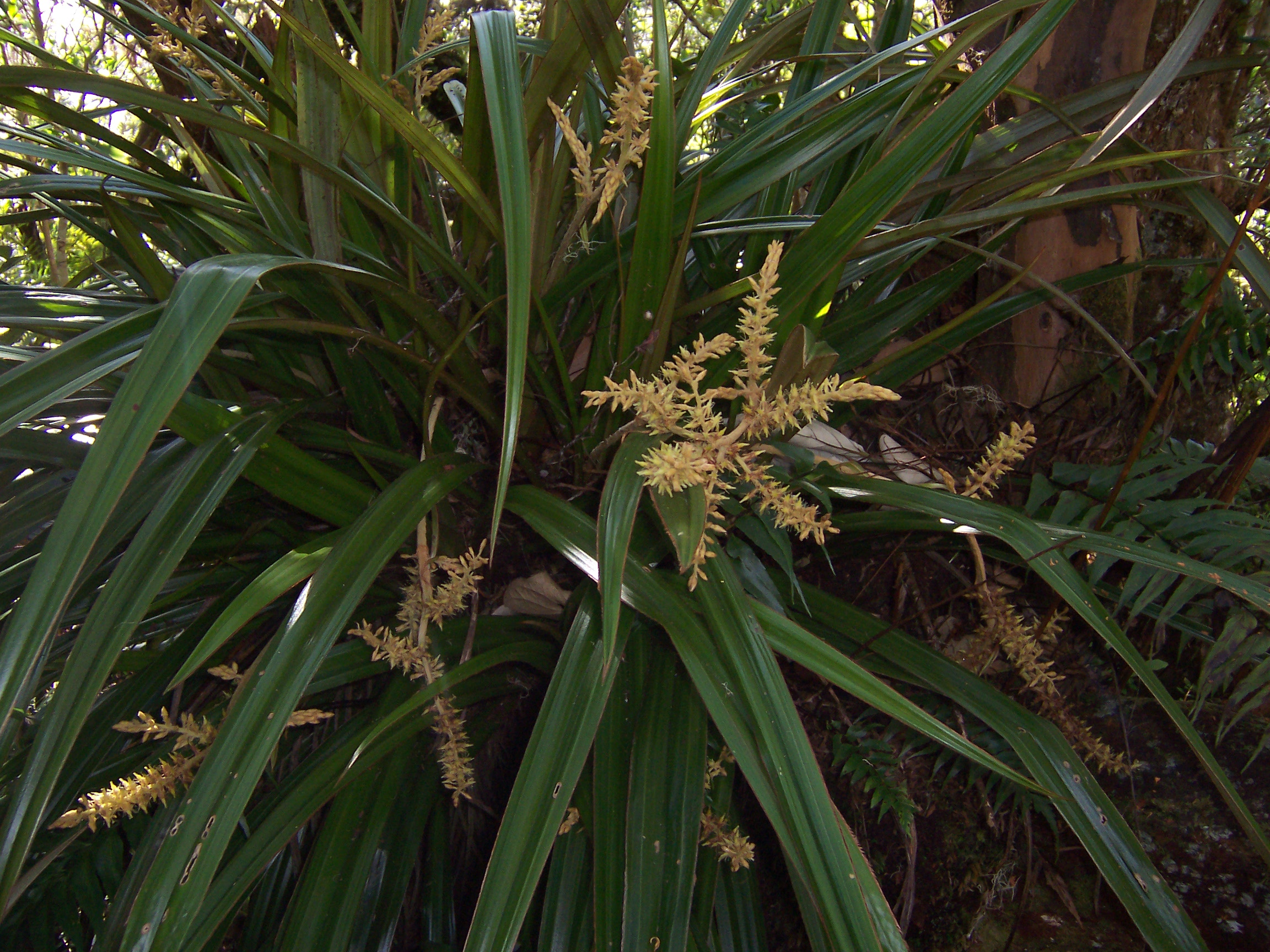 Astelia hemichrysa fr: (ananas marron) Photo: B.Navez - 12 MAR 2006 - Réunion island